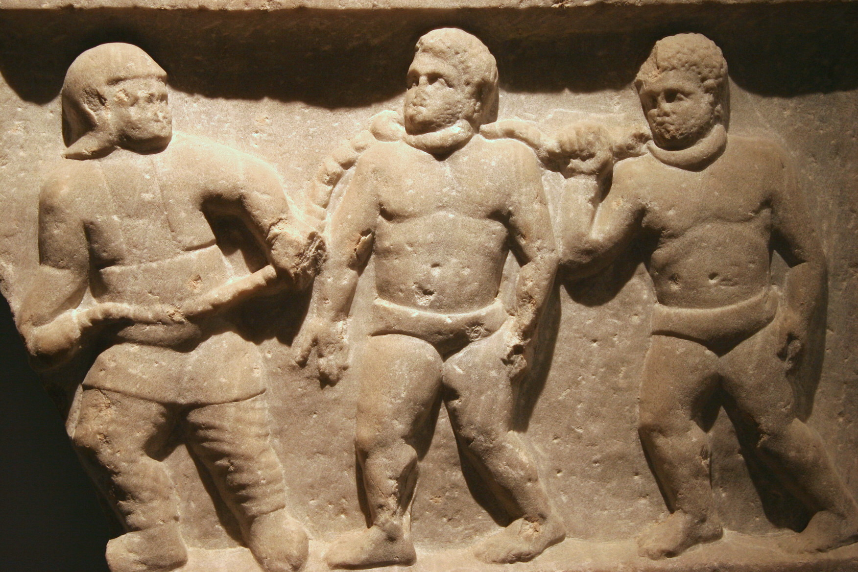 Roman collared slaves. — Marble relief, from Smyrna (Izmir, Turkey), 200 CE. Collection of the Ashmolean Museum, Oxford, England.